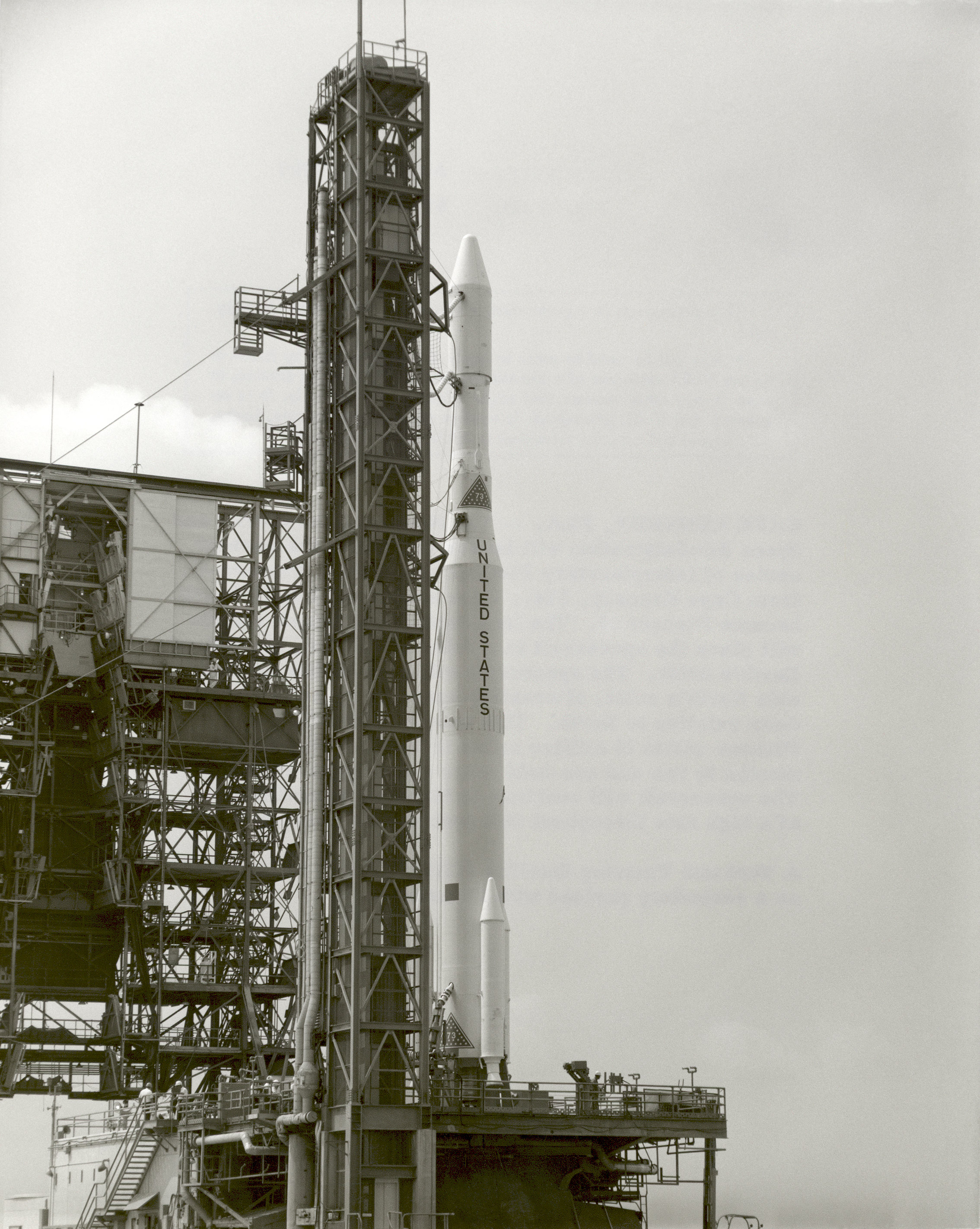 The fated Pioneer E launch vehicle. Pioneer 10 was supposed to launch on this long-tank Delta launch vehicle. The Delta was composed of parts from the Thor, an intermediate-range ballistic missile, as its first stage, and the Vanguard as its second. A first stage hydraulics failure occured and the spacecraft was destroyed by range safety protocol on 27 Aug 1969 .